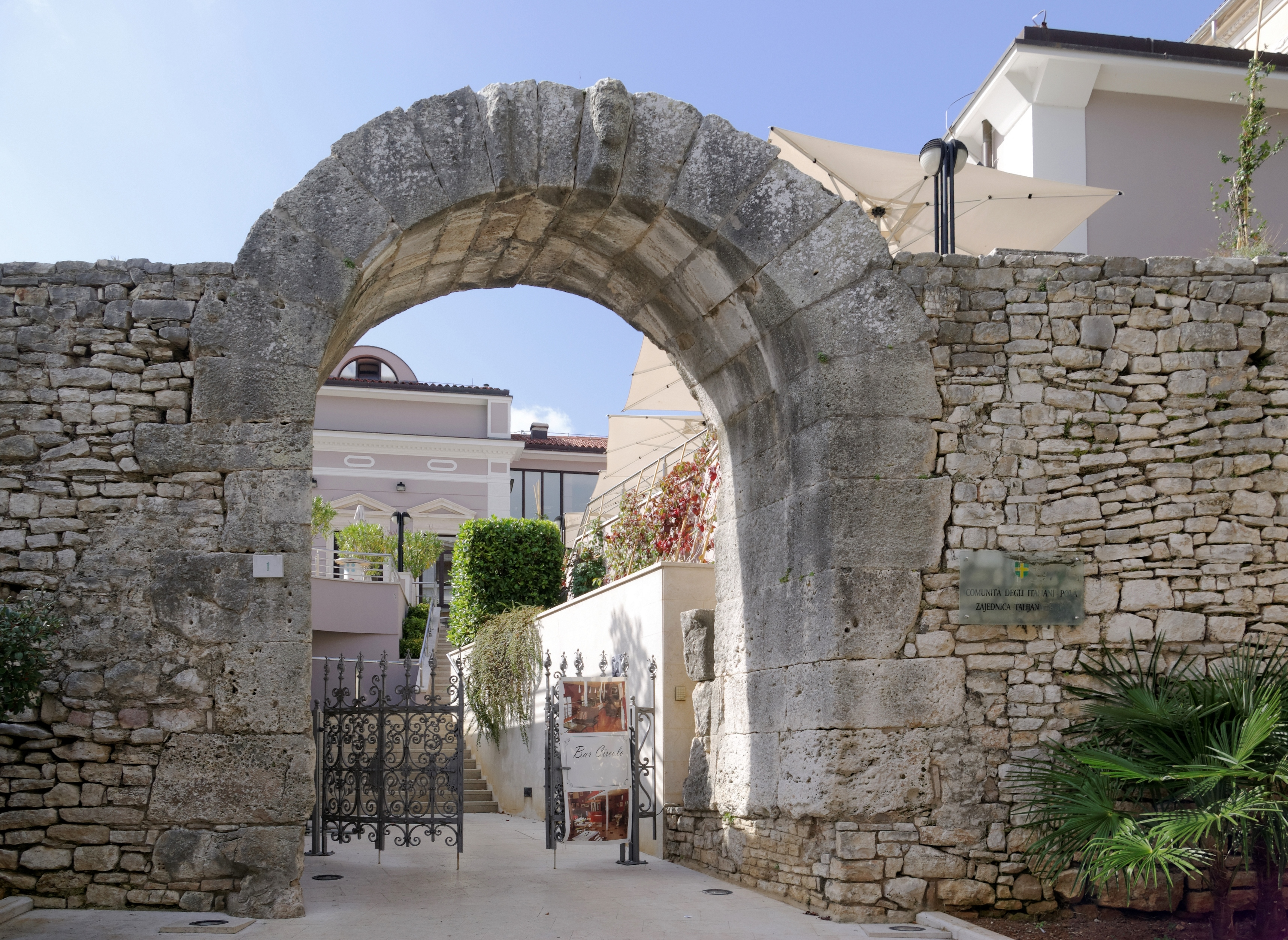 Croatia, Pula, Hercules Gate